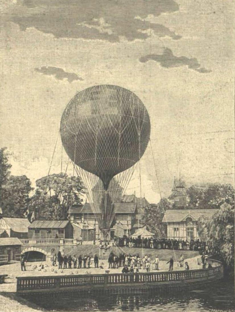 Millenial exhimbition in Budapest, Military balloon